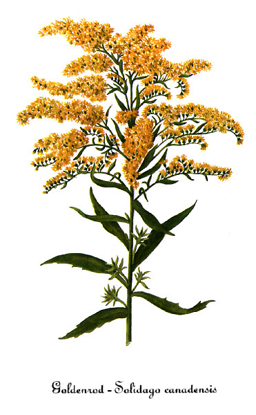 Watercolor painting of Solidago_canadensis-2.